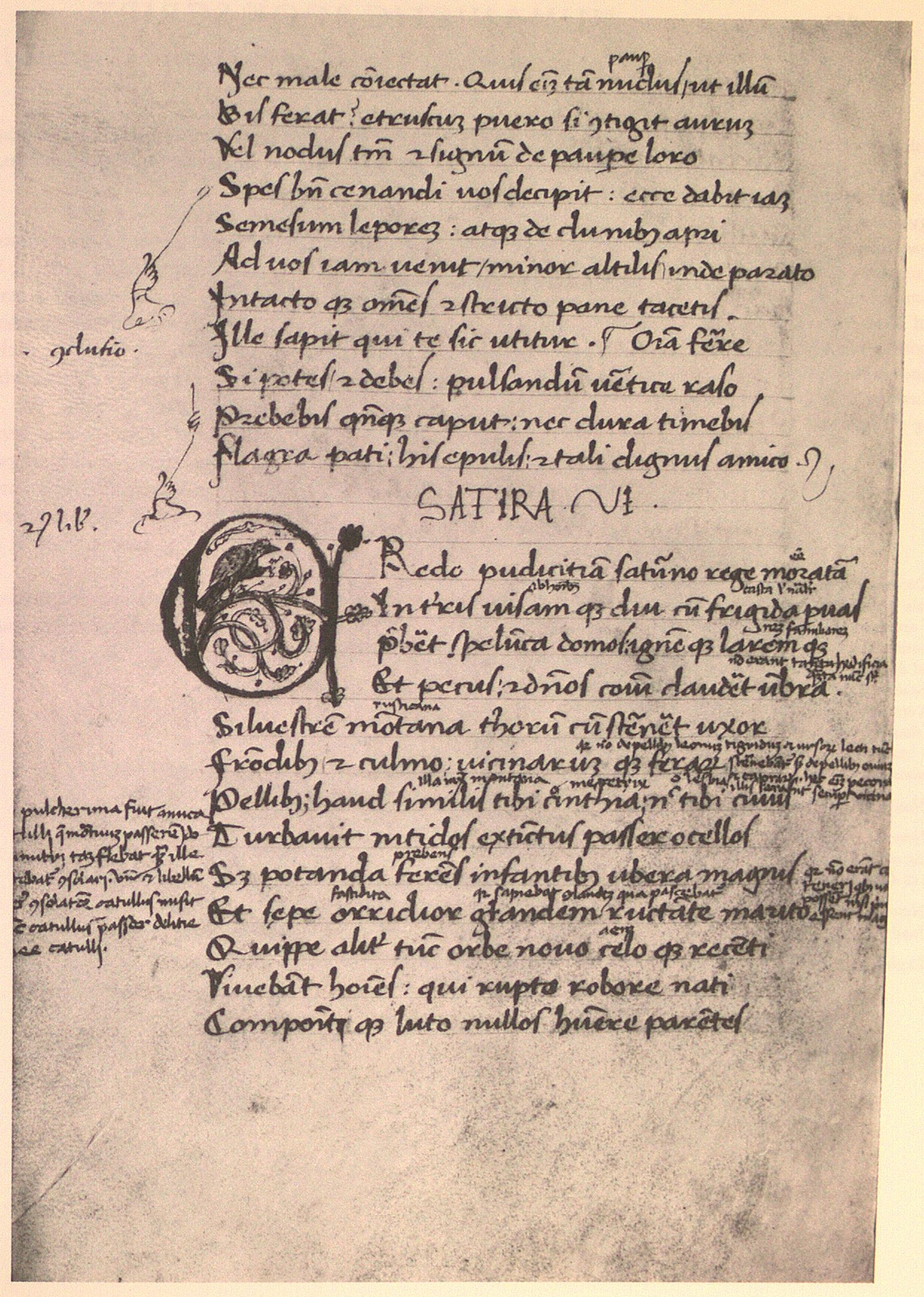 A page of a manuscript of Juvenal’s „Satires“. London, British Library, Additional MS 17413, fol. 20v.